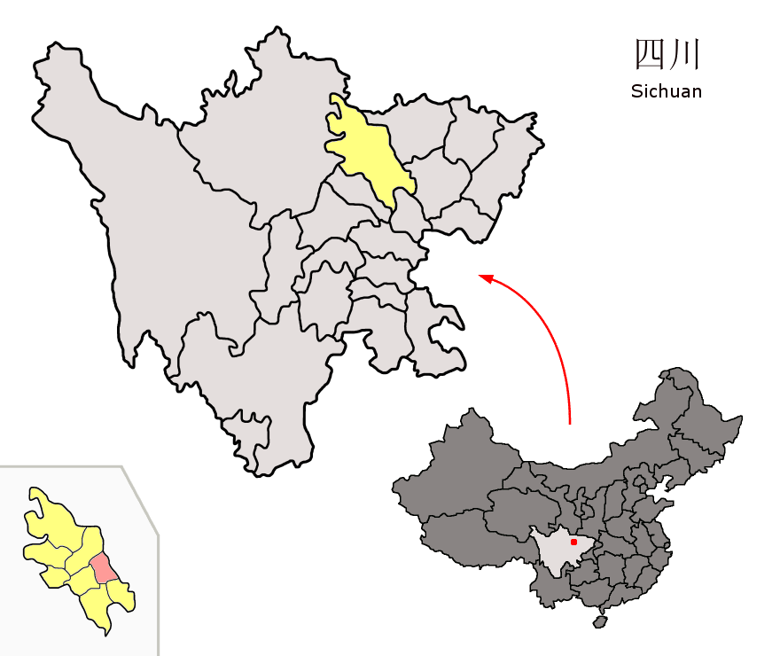 Location of Zitong County (pink) and Mianyang Prefecture (yellow) within Sichuan province of China Map drawn in october 2007 using various sources, mainly : Sichuan province administrative regions GIS data: 1:1M, County level, 1990 Sichuan Counties map from